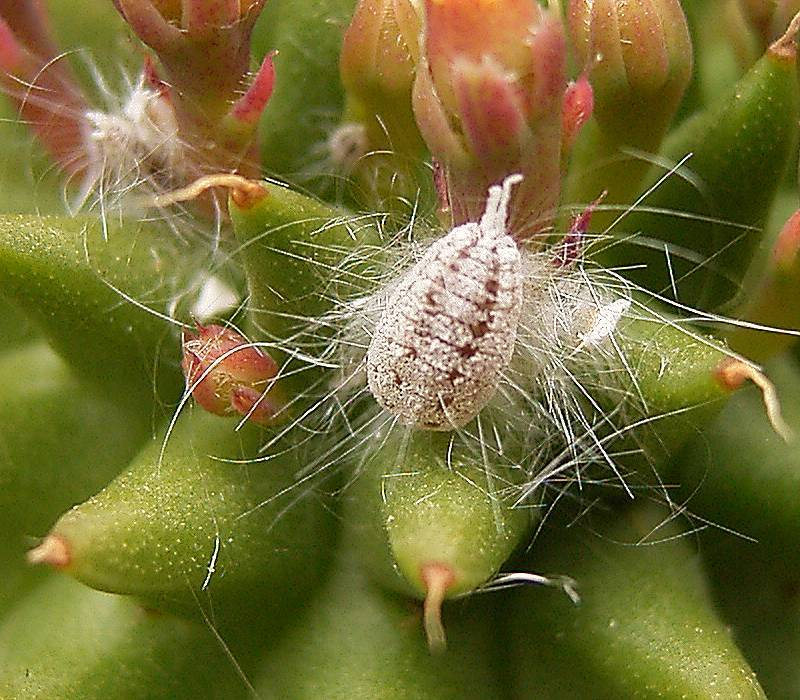 mealy bug / Wolllaus